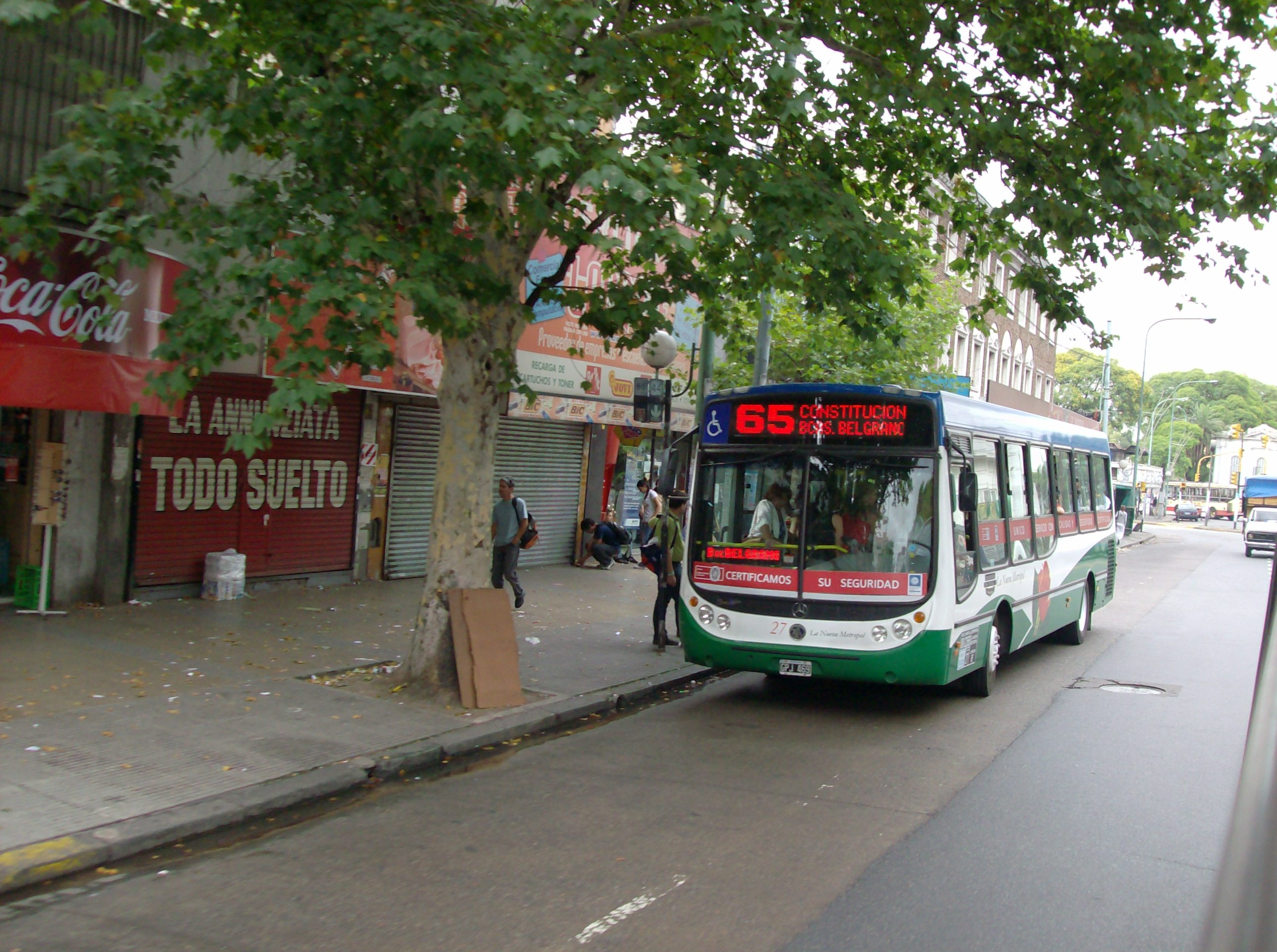 Colectivo 65 picture at Avenida Corrientes and Avenida F. Lacroze (Chacarita), Buenos Aires City (Capital Federal), Argentina. Metalpar Tronador bus (reg. GPJ 469) with Mercedes-Benz chassis. La Nueva Metropol S.A. operator.